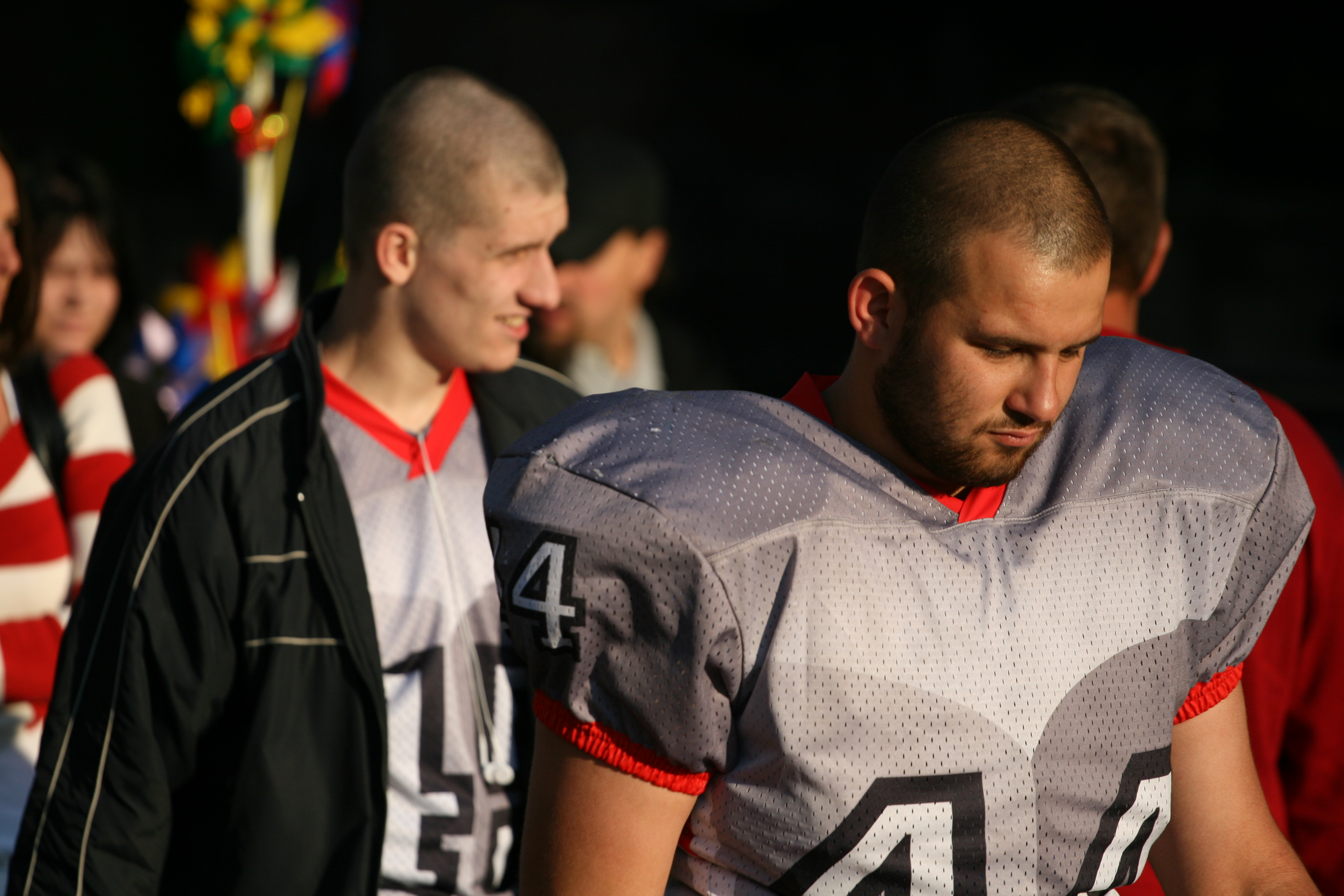 Players from American Football Team "Husaria Szczecin".